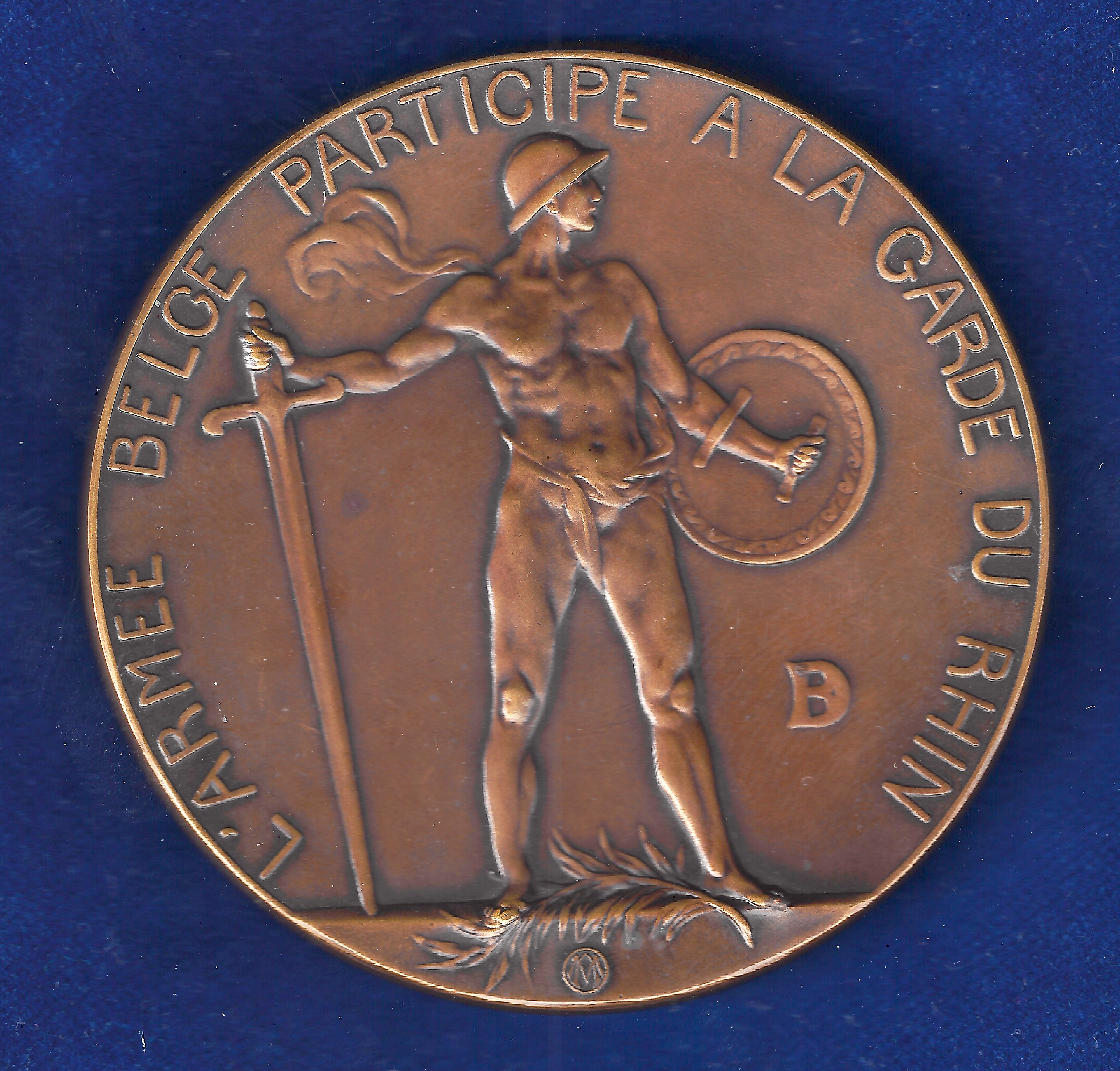 Belgium 1919 Medal by Dubois Occupation of Germany after the Peace of Versailles Bronze d.= 70 mm. The angel of peace flying r. above the liberated personification of Belgium. 3 lines at r.: "TRAITE DE VERSAILLES 28 JUIN 1919". Curved above: "LA BELGIQUE ROMPT SA NEUTRALITE". / A standing Belgian soldier facing East against Germany, curved above: "L' ARMEE BELGE PATICIPE A LA GARDE DU RHIN". Medallist: Monogram DB (Paul Du Bois), 1859 Aywaille near Liège, Belgium - 1938 Brussels- Uccle Condition: Perfect UNCIRCULATED.